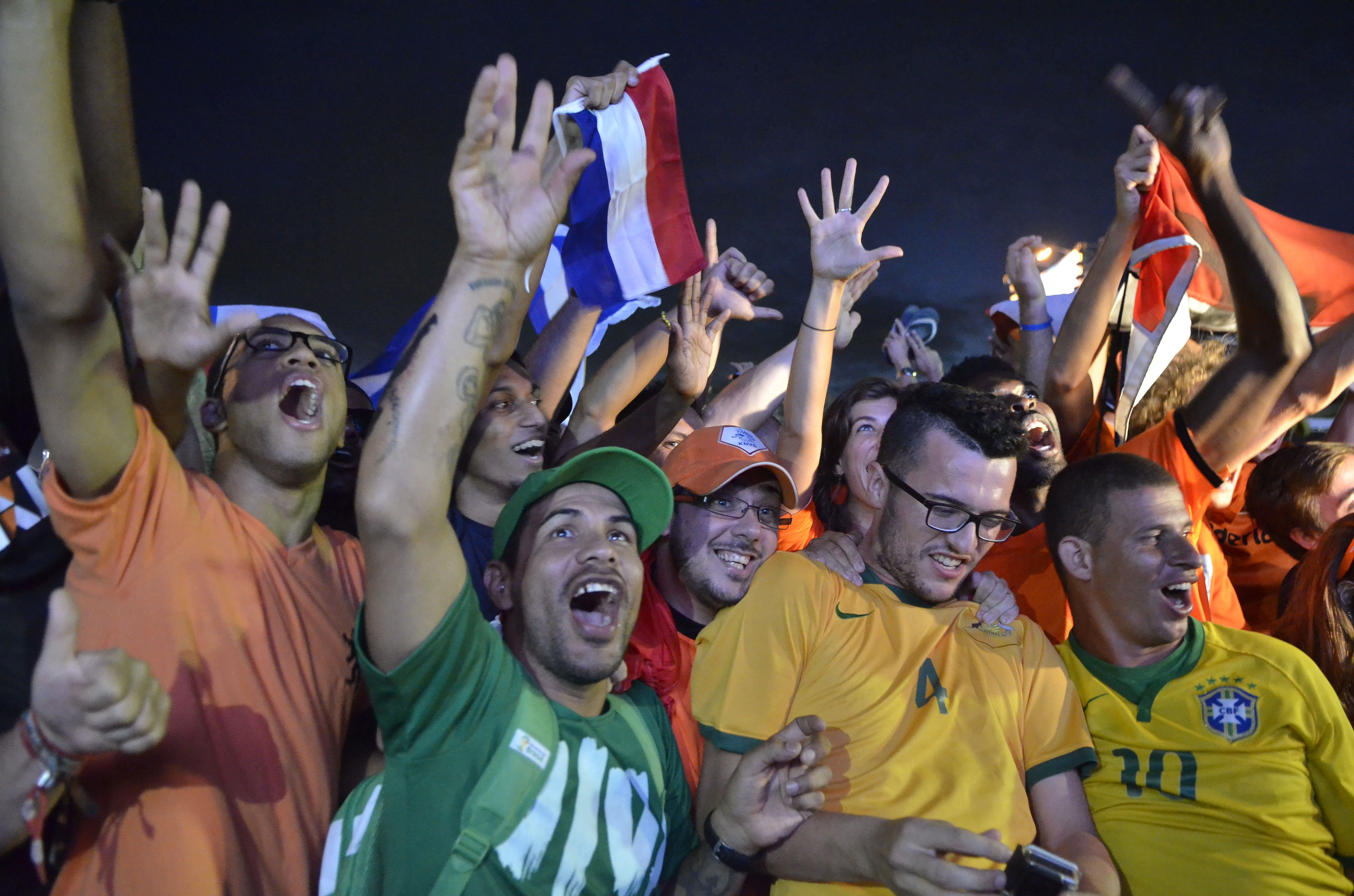 Second day of the Fifa Fan Fest - Rio de Janeiro